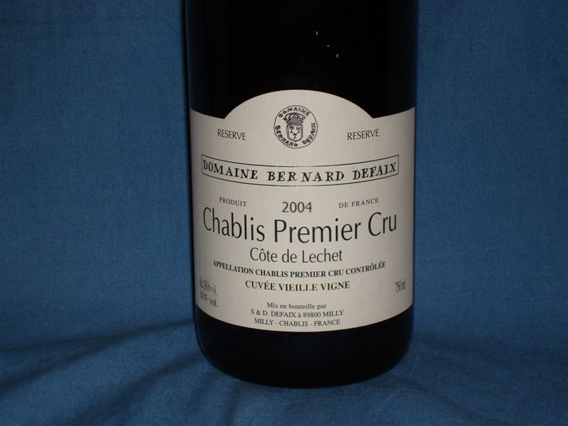 French white wine from Chablis made from Chardonnay